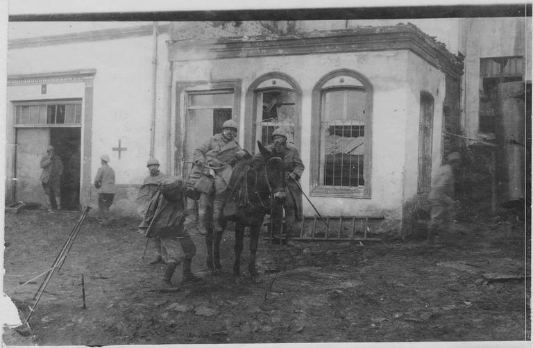 Village Dihovo in Macedonia in time of WWI